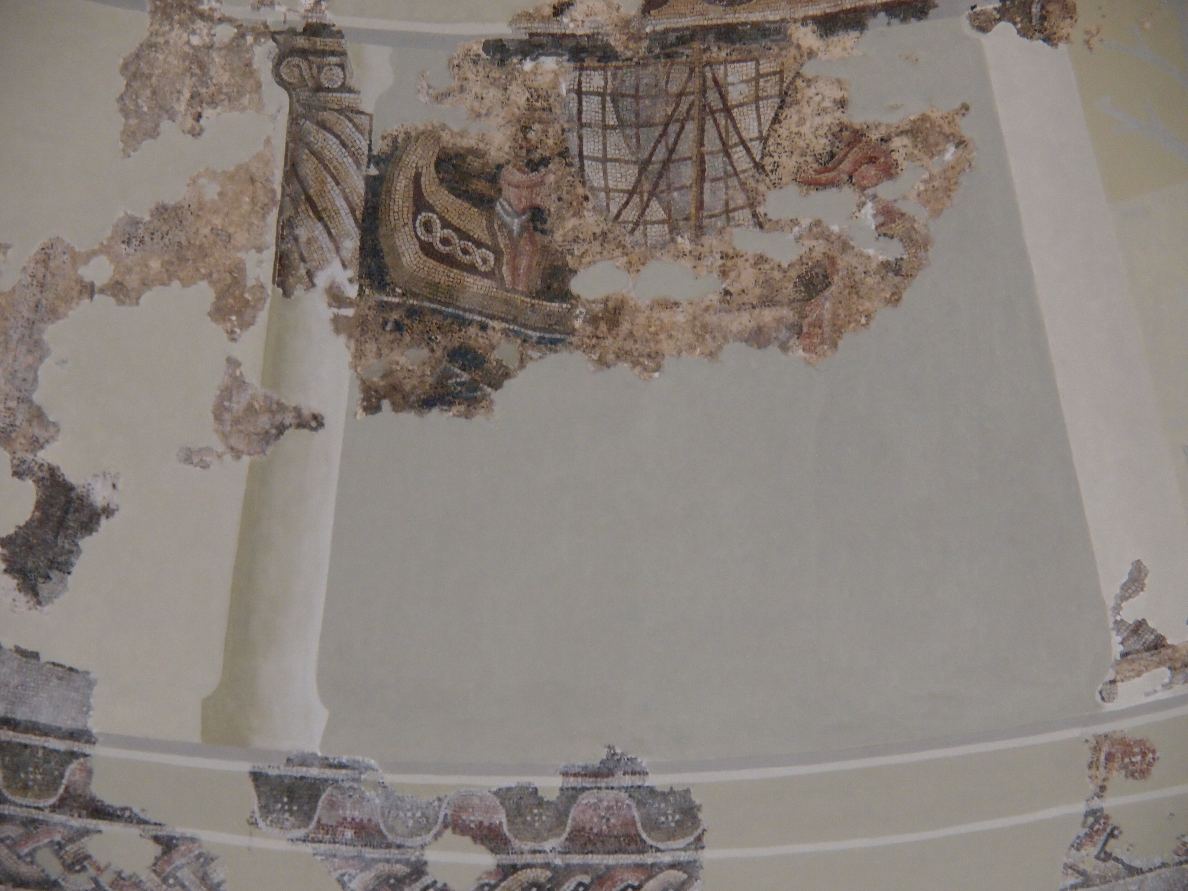 Escena del ciclo de Jonás